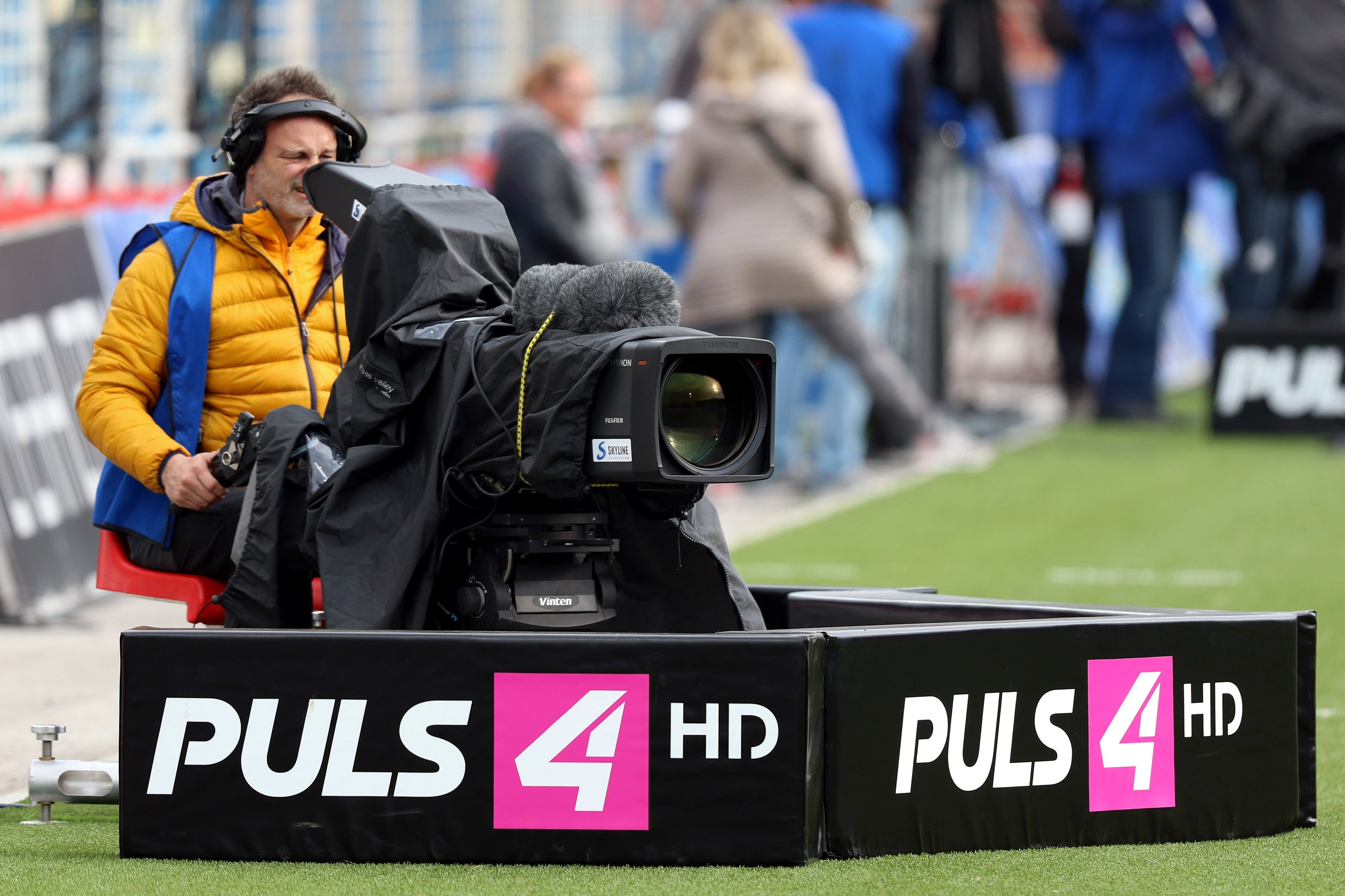 2016–17 Austrian Cup: FC Admira Wacker Mödling (red shirts) vs. FC Red Bull Salzburg (white shirts) at 26. April 2017 in the BSFZ-Arena in Maria Enzersdorf 0:5 (0:2) – The photo shows a TV-cam of the TV-channel Puls4